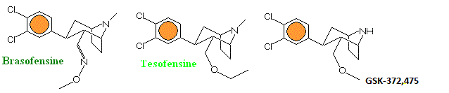 Brasofensine Tesofensine and Methoxymethyl analog.